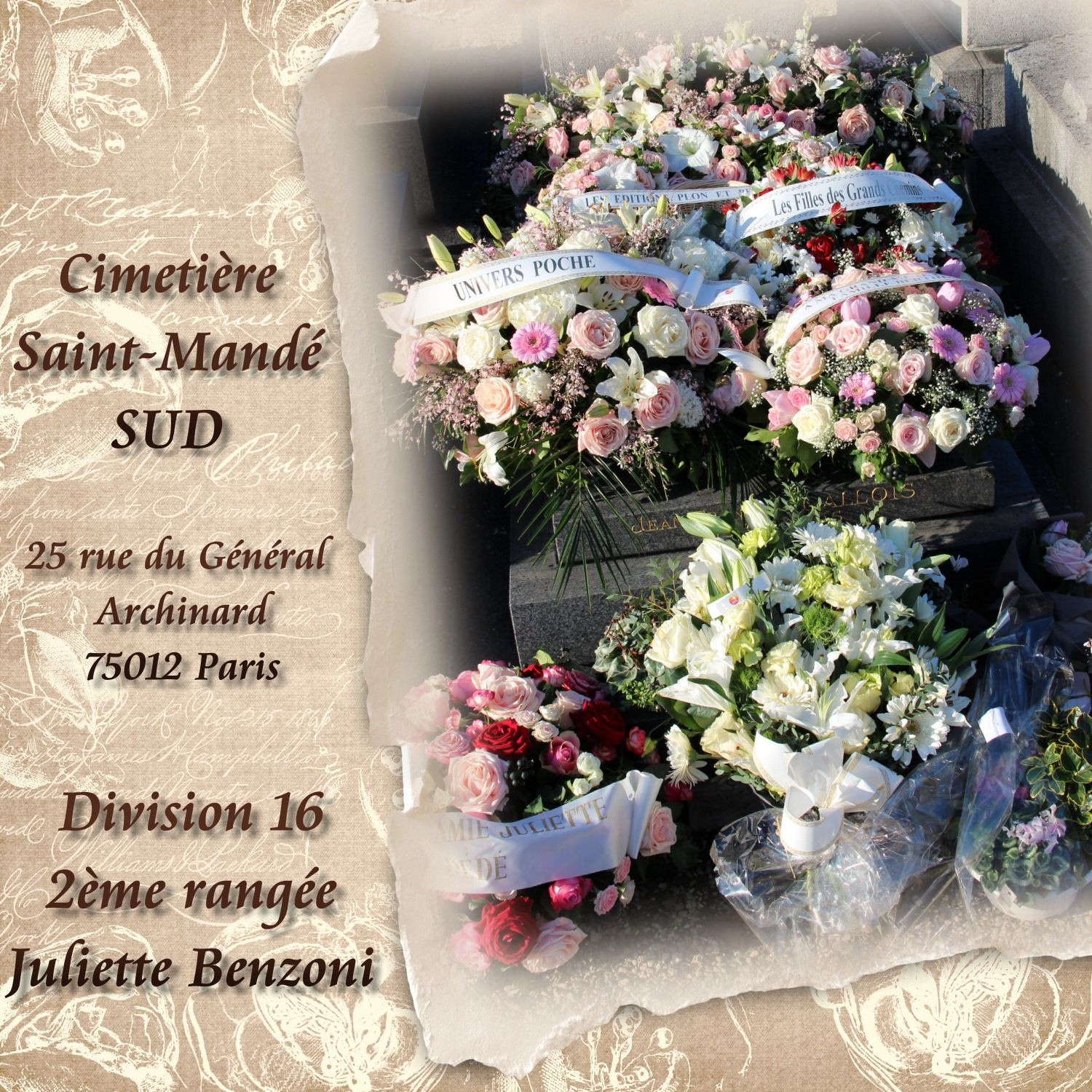 The resting place of French Author Juliette Benzoni Saint-Mandé 2016